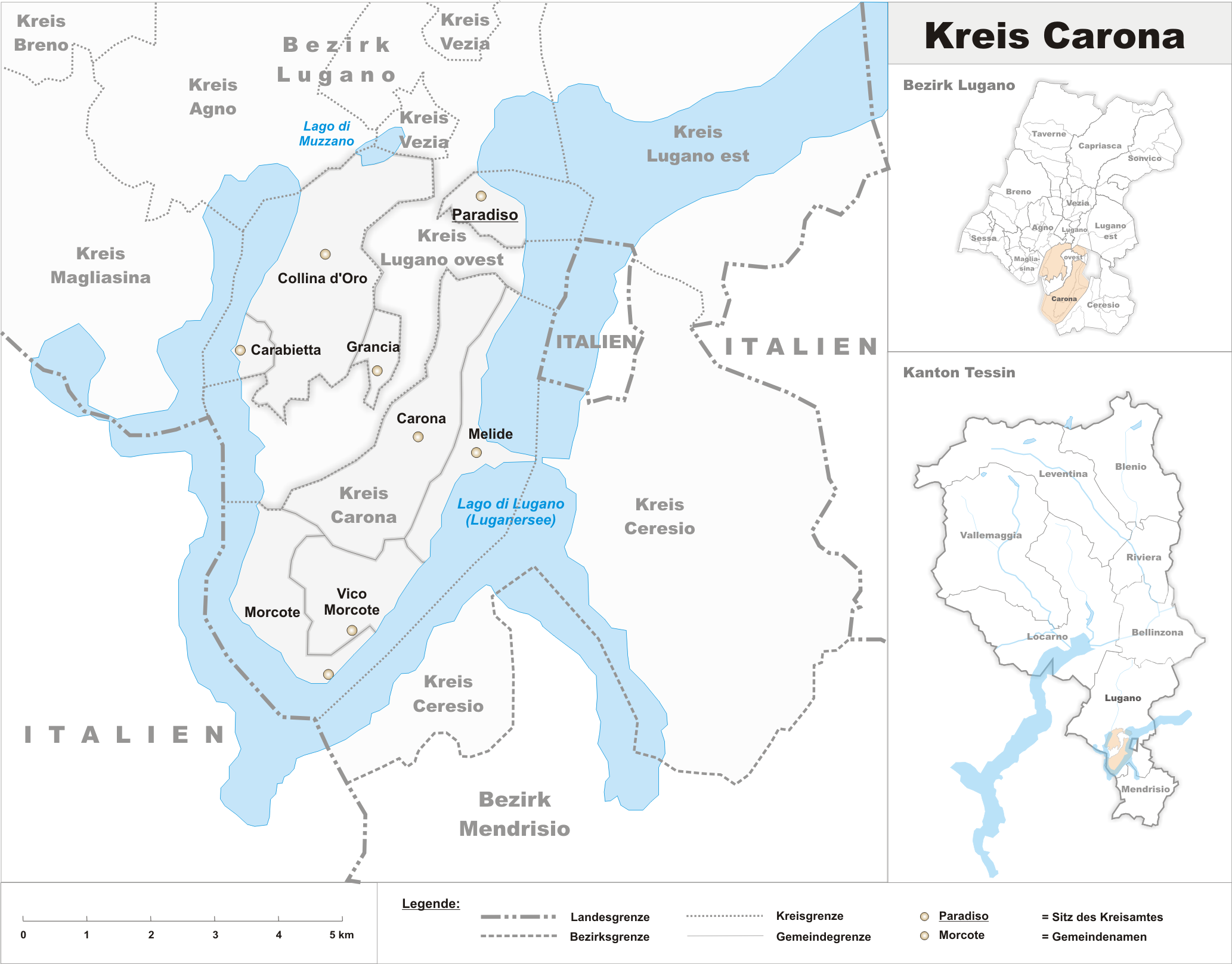 Municipalities in the circle of Carona